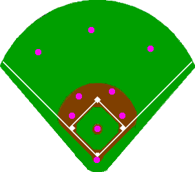 User:PSzalapski made this image and released it into the public domain. Baseball positioning, standard depth